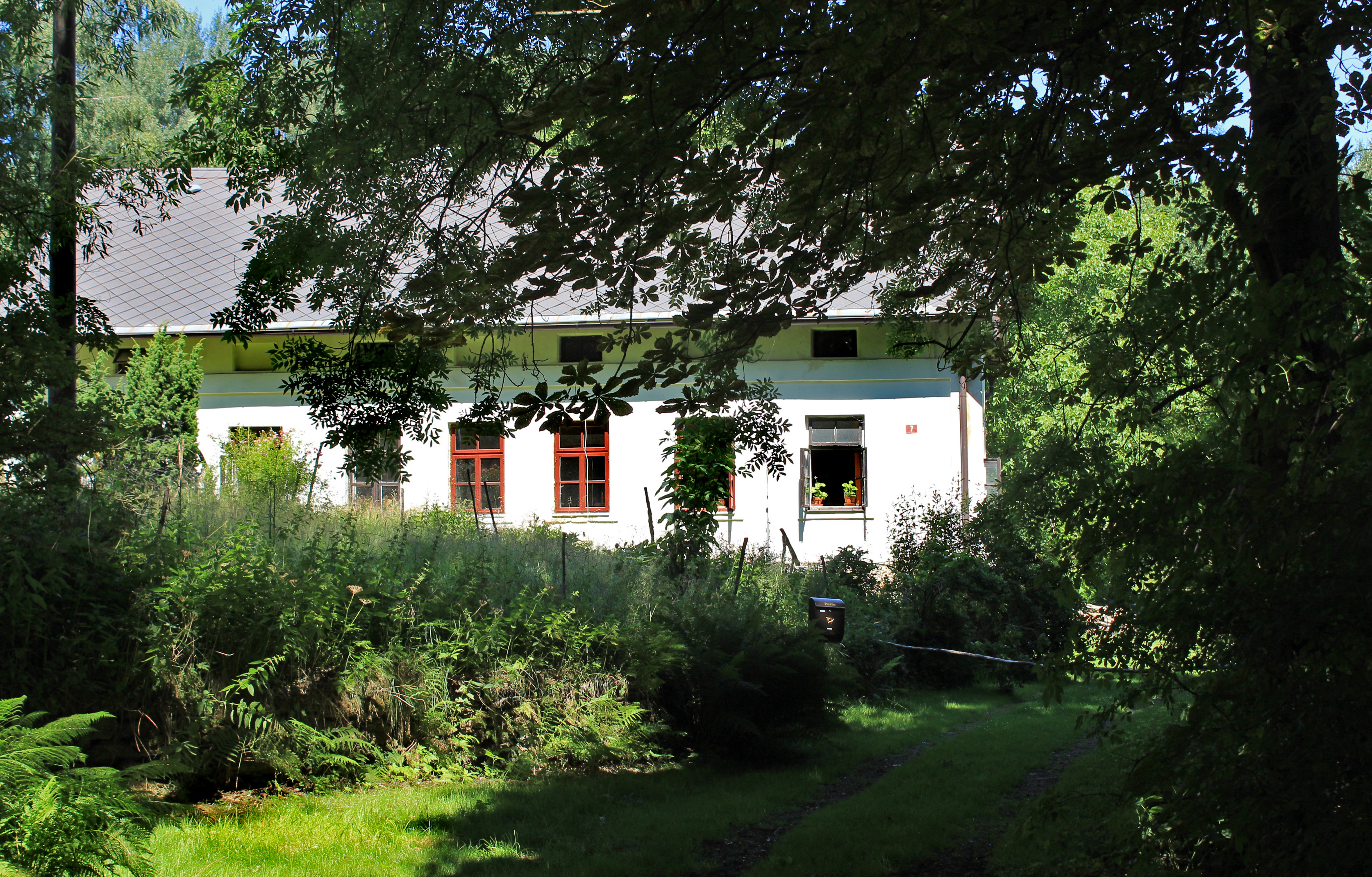 House No 7 in Sezemín, part of Poběžovice, Czech Republic.